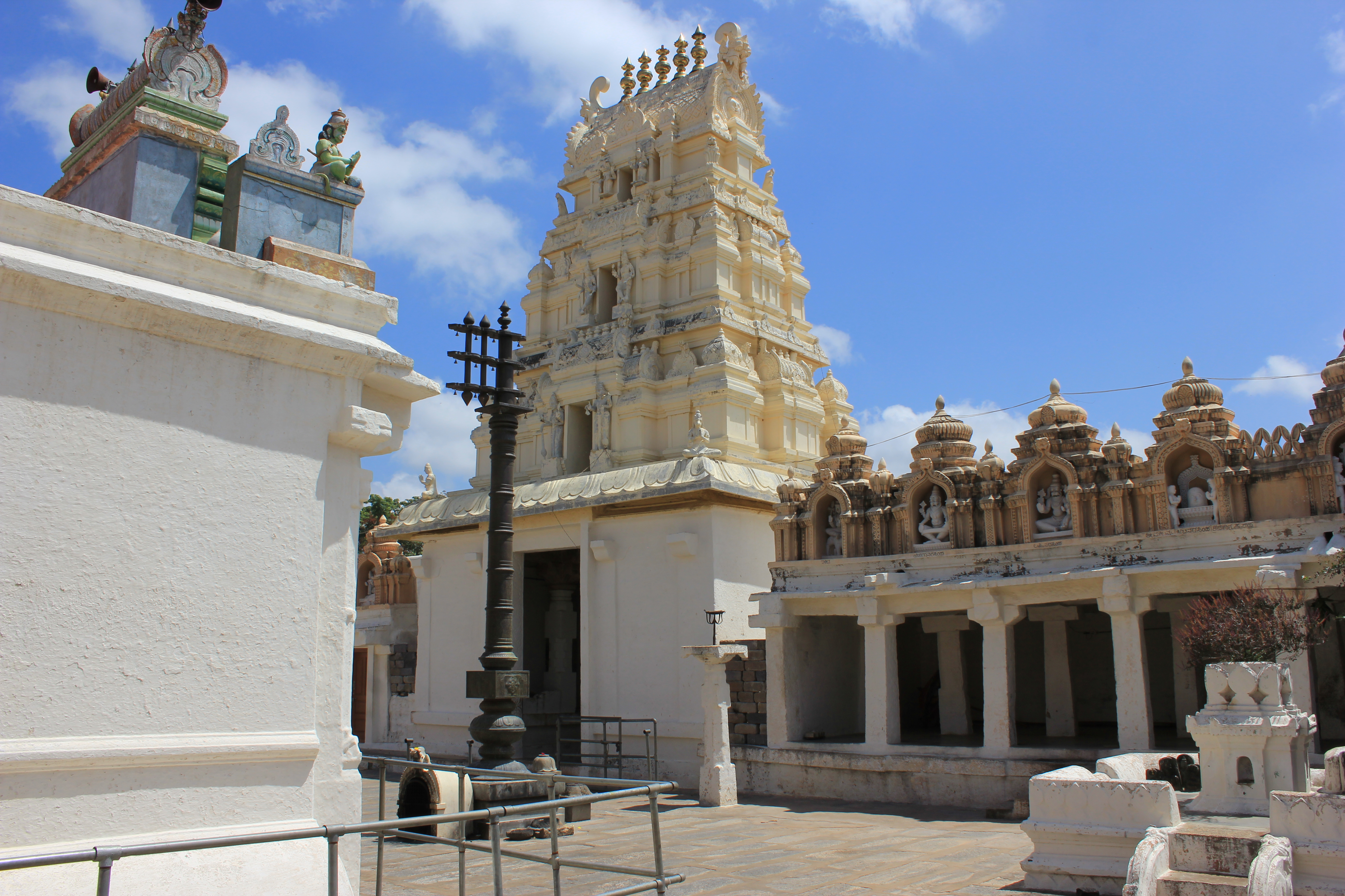 The Narasimha Swamy temple is an Dravidian structure built around the end of the 18th century by three brothers, Lakshminarasappa, Puttanna and Nallappa who were the sons of Kacheri Krishnappa, a Dewan in the court of Tipu Sultan of the Mysore Kingdom. The temple is in the town of Seebi in the Tumkur district, Karnataka state, India